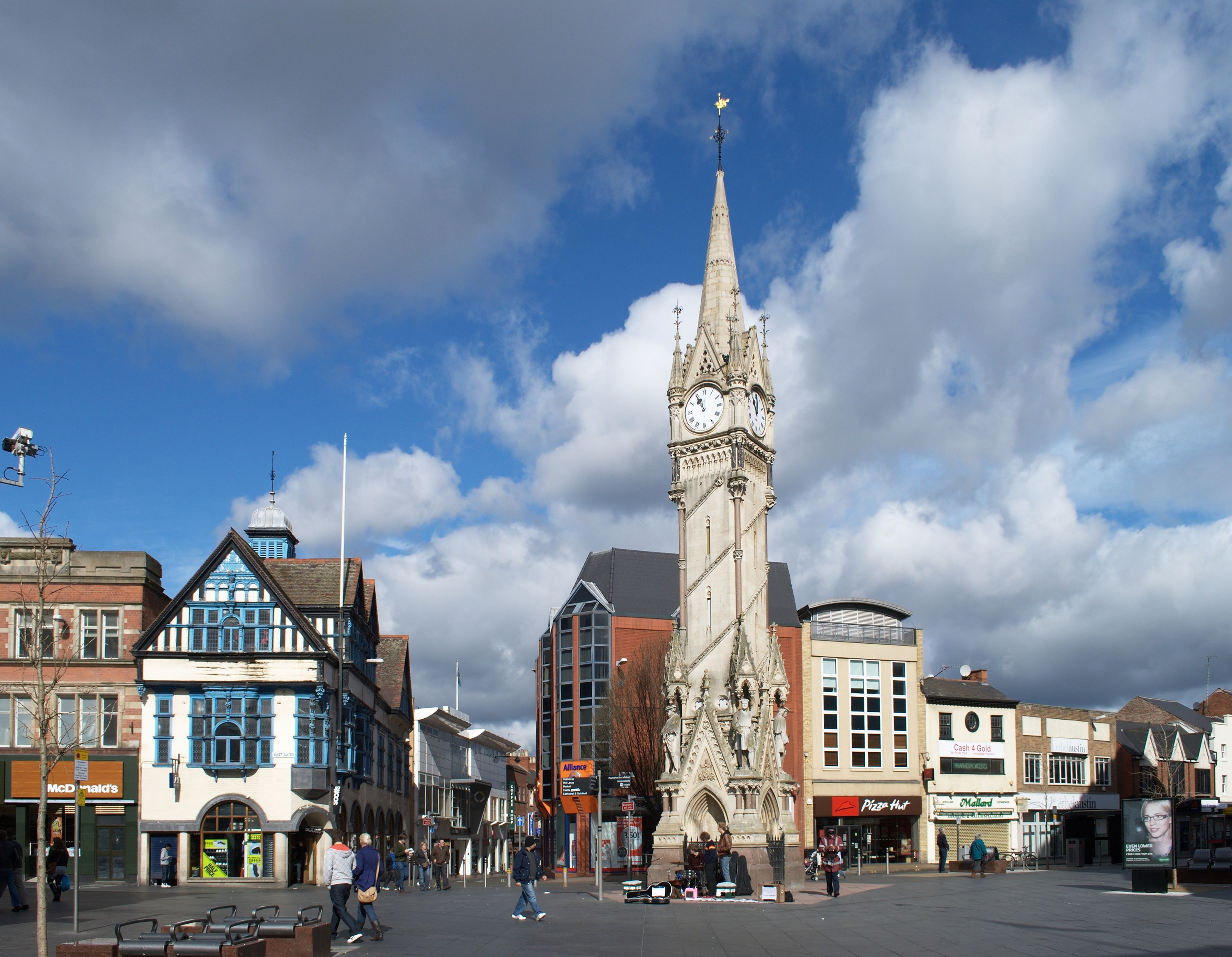 The Haymarket Memorial Clock Tower is a prominent landmark at the main pedestrian junction in central Leicester